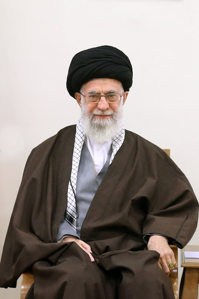 Ayatollah Khamenei meeting with members of the Iran's Assembly of Experts after their final meeting in the fourth term